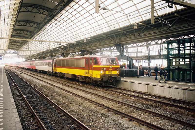 A Beneluxtrain from Bruxelles arriving at the Amsterdam Centraal Station.Amsterdam CS.